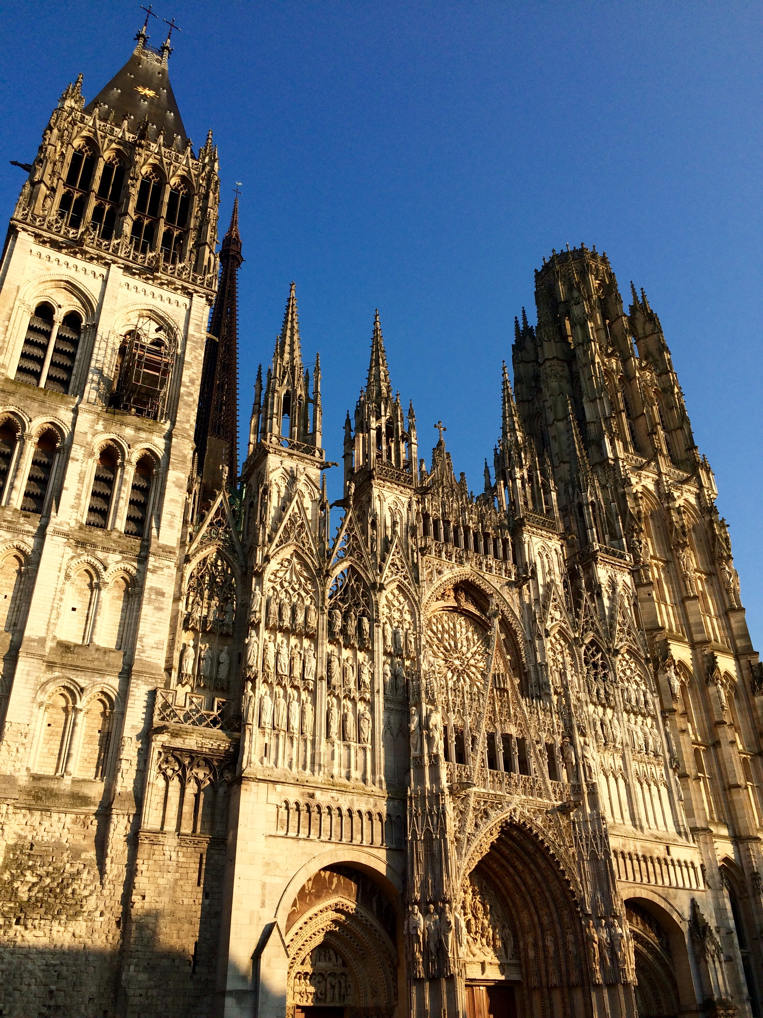 Rouen Cathedral as seen at twilight, on 17th of March 2016.